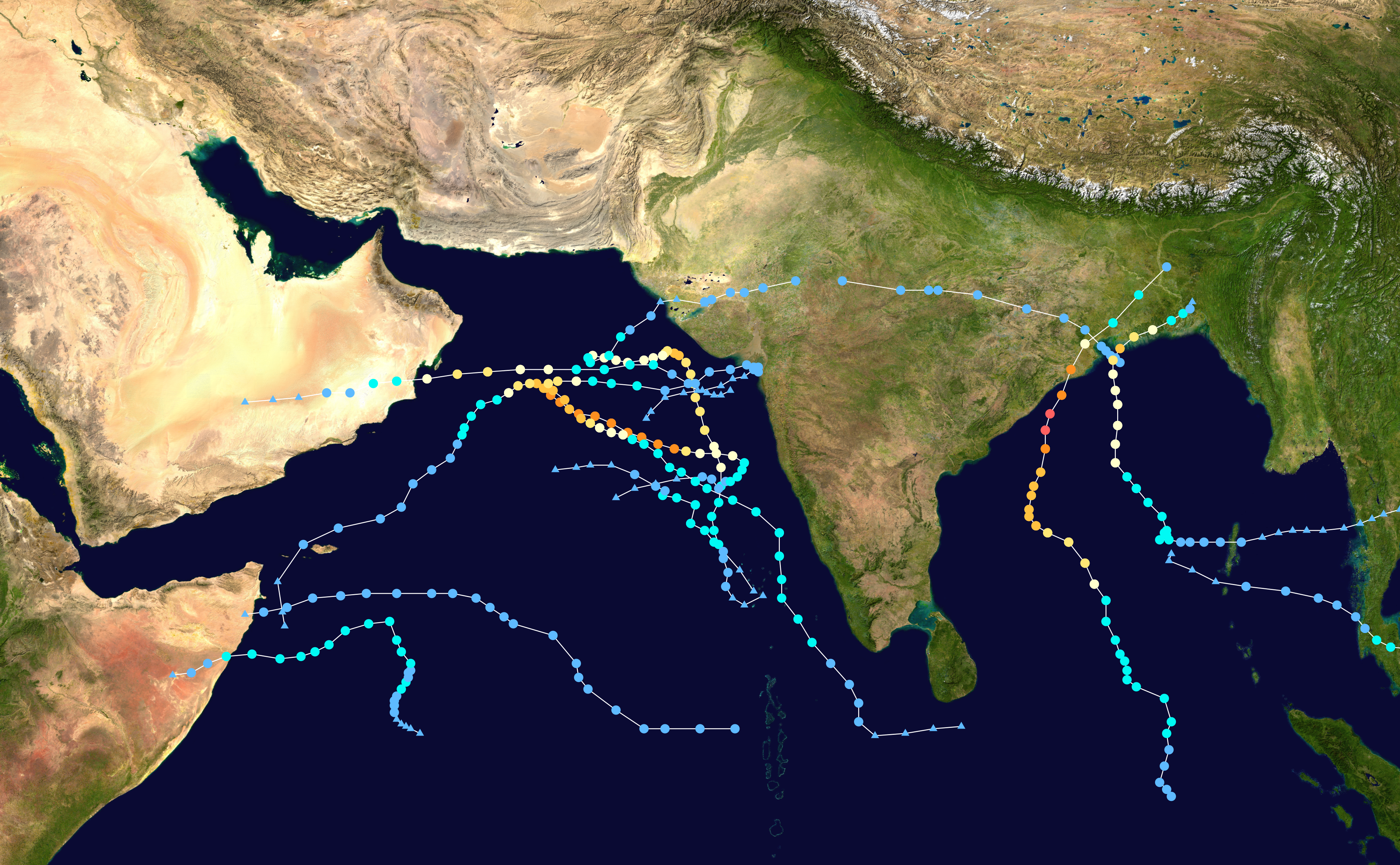 This map shows the tracks of all tropical cyclones in the 2019 North Indian Ocean cyclone season. The points show the location of each storm at 6-hour intervals. The colour represents the storm's maximum sustained wind speeds as classified in the Saffir-Simpson Hurricane Scale (see below), and the shape of the data points represent the type of the storm. Map generation parameters: --res 4000 --extra 1 --dots 0.2 --lines 0.04 --xmin 40 --xmax 100 --ymin 0 --ymax 35 Saffir–Simpson scale Tropical depression≤38 mph≤62 km/h Category 3111–129 mph178–208 km/h Tropical storm39–73 mph63–118 km/h Category 4130–156 mph209–251 km/h Category 174–95 mph119–153 km/h Category 5≥157 mph≥252 km/h Category 296–110 mph154–177 km/h Unknown Storm type Tropical cyclone Subtropical cyclone Extratropical cyclone / Remnant low / Tropical disturbance / Monsoon depression